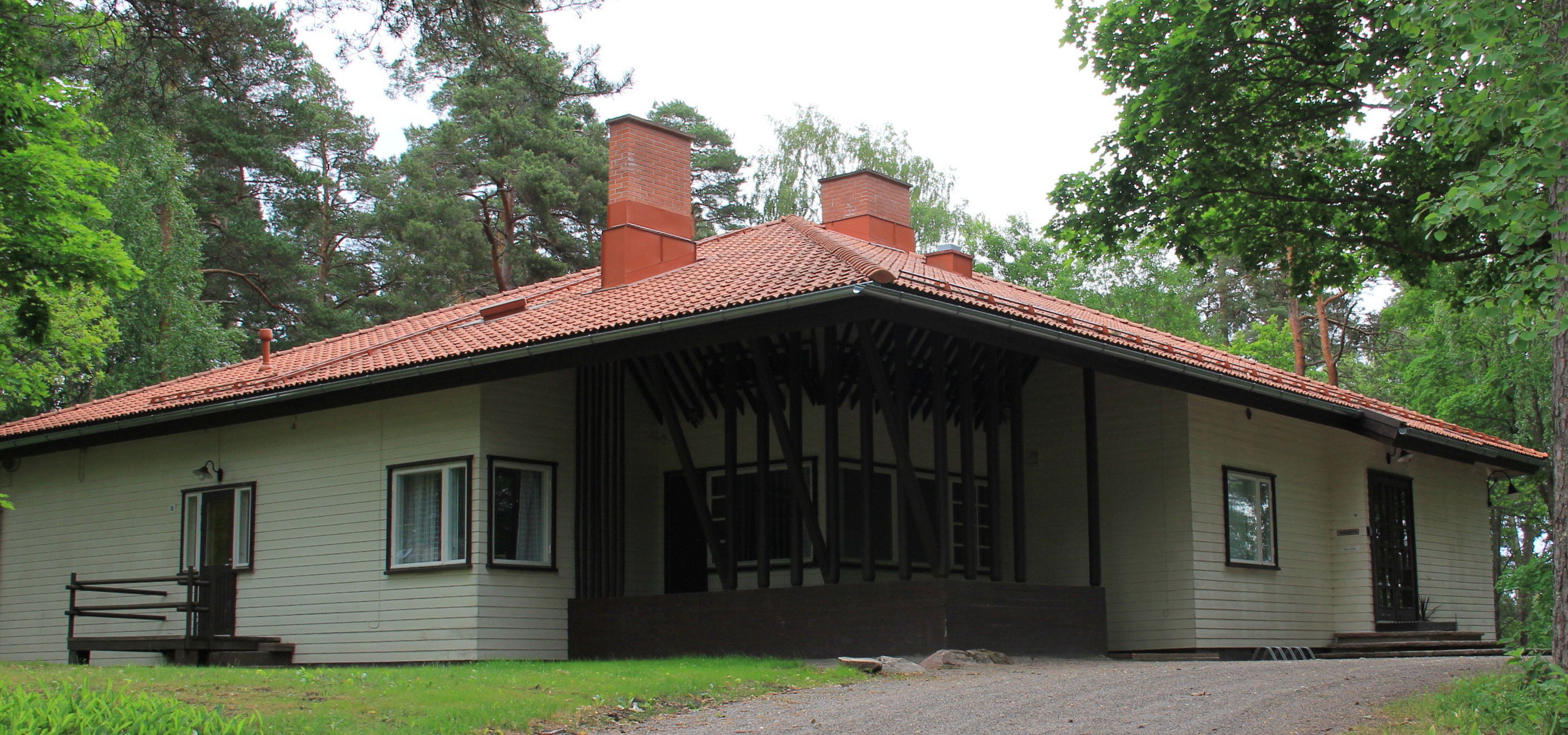 Villa Aalto, Kauttua Works, Eura, Finland.